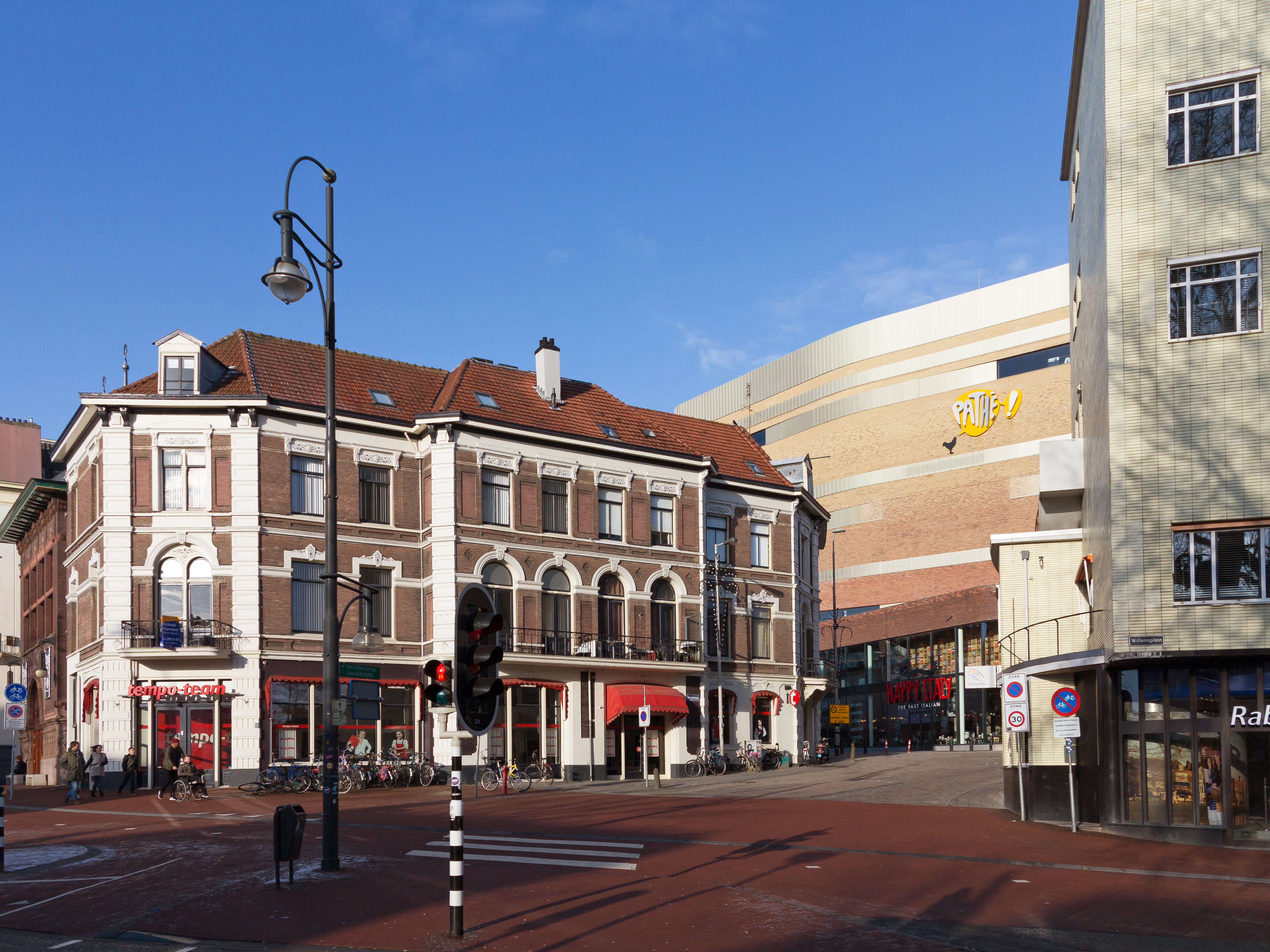 Arnhem, employment agency in monumental building